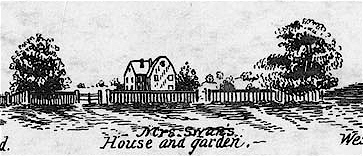 Accession No.: 07_10_000108 Cab. No.: Cab 23.58.1 Title: Tremont Street and Boylston Street in 1800 Date: 1800 Genre: Engravings Description: Copy photograph of engraving. Four separate views showing Tremont Street from Court Street to Bromfield Street; Tremont Street from Bromfield Street to West Street; Tremont Street from West Street to Boylston Street; and Boylston Street from Tremont Street to Carver Street. Image dated 1800, but this possibly a late 19th century facsimile of original. This image may not be part of the original collection. BPL Department: Print Department